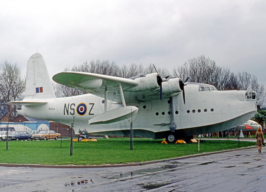 Short Sunderland MR.5 ML824 NS-Z at the Royal Air Force Museum, Hendon, in 1977